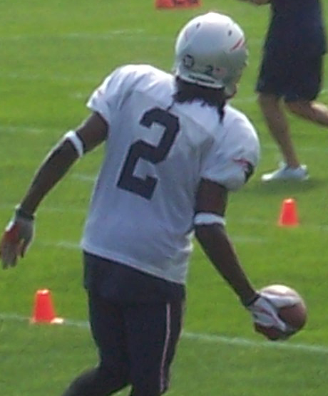 C. J. Jones at 2007 New England Patriots training camp.